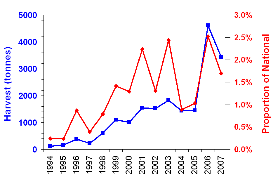 Tonnes of grapes harvested in Central Otago Region 1994-2007. Figures sourced from New Zealand Winegrowers via an article in The Otago Daily Times, p.2, Thursday May 21 2007.